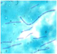 An image of Lactobacillus bulgaricus GLB44 bacteria strain under a microscope